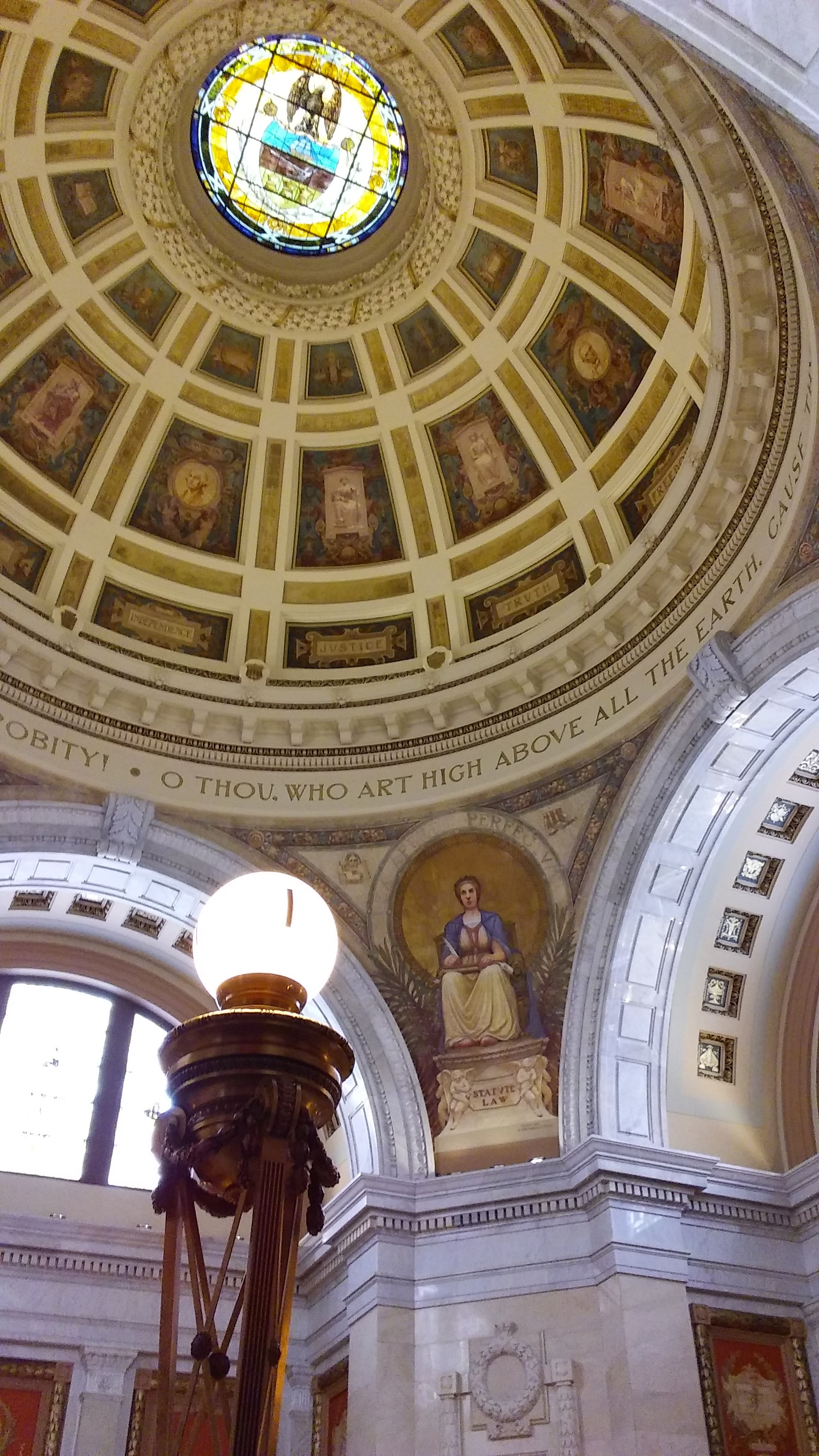 Portion of the recently renovated (March 2018) rotunda of the Luzerne County Courthouse, Wilkes-Barre, PA.